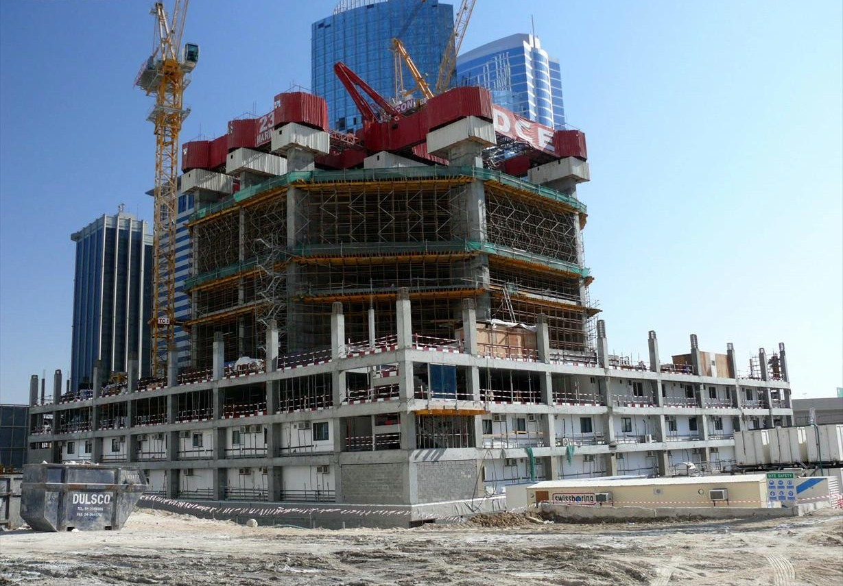 This is a photo showing the construction of 23 Marina, located in Dubai Marina in Dubai, United Arab Emirates, on 20 December 2007.